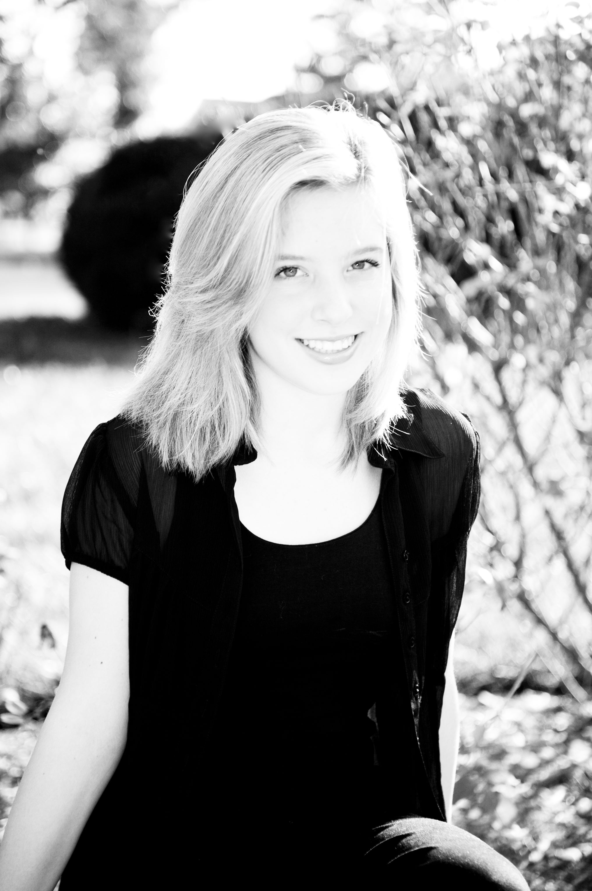 Julienne Irwin, American singer and finalist on America's Got Talent